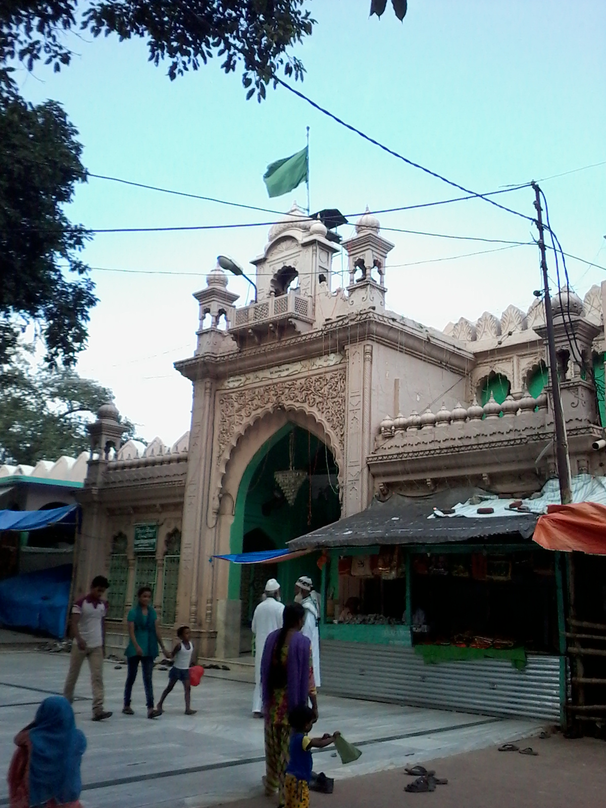 The entry gate f of Dargah of Syed Salar MAsood Ghazi Bahraich